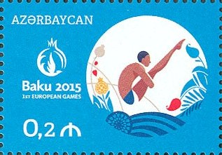 Baku 2015. First European Games.(2nd edition) N 1209 - 20 qapik – Diving